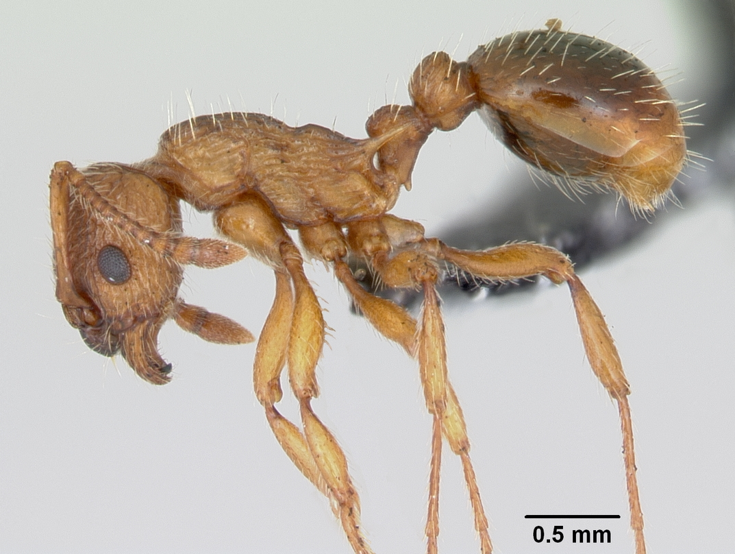 Profile view of ant Myrmica specioides specimen casent0172726.